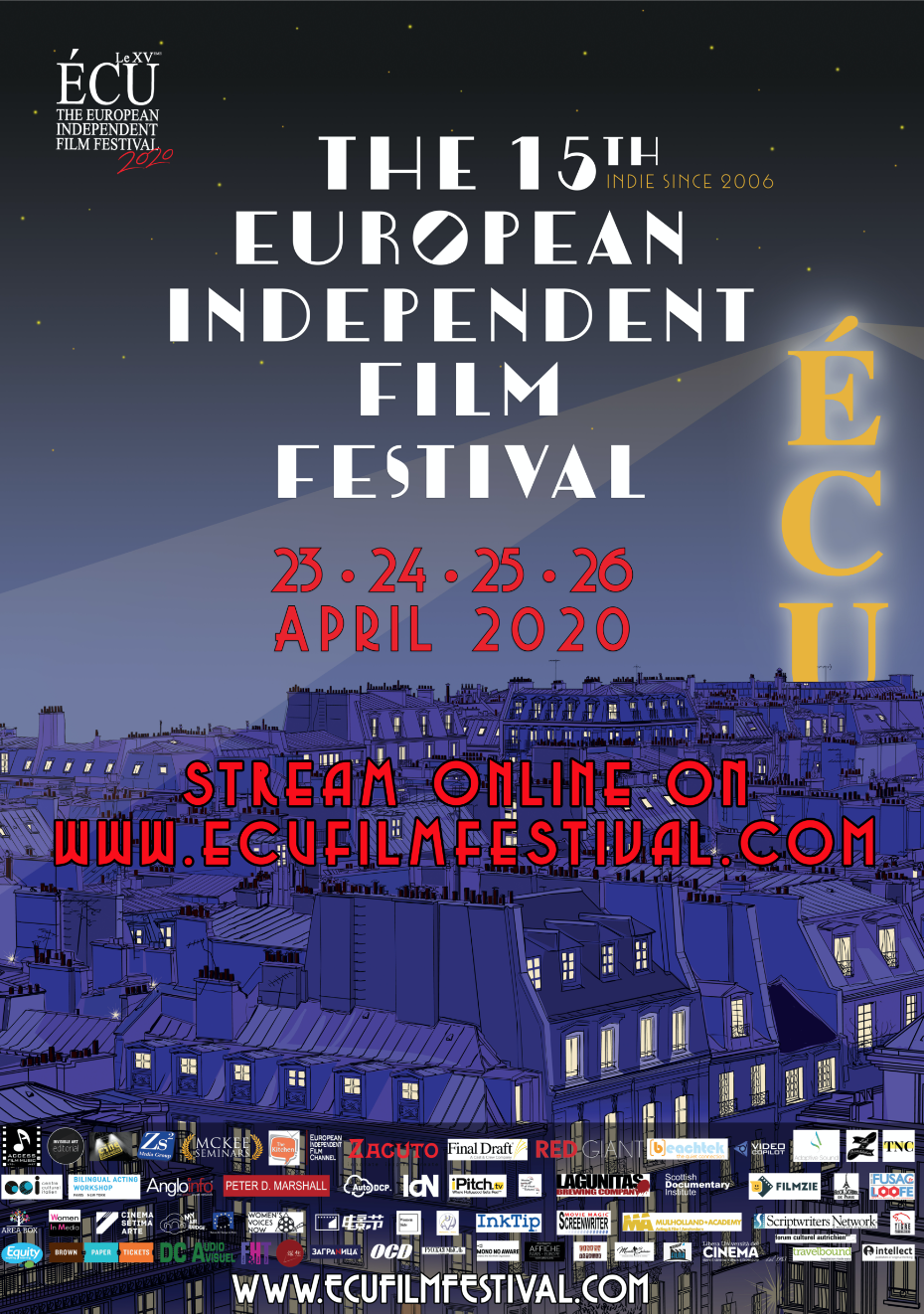 Poster for ÉCU 2020, the online edition